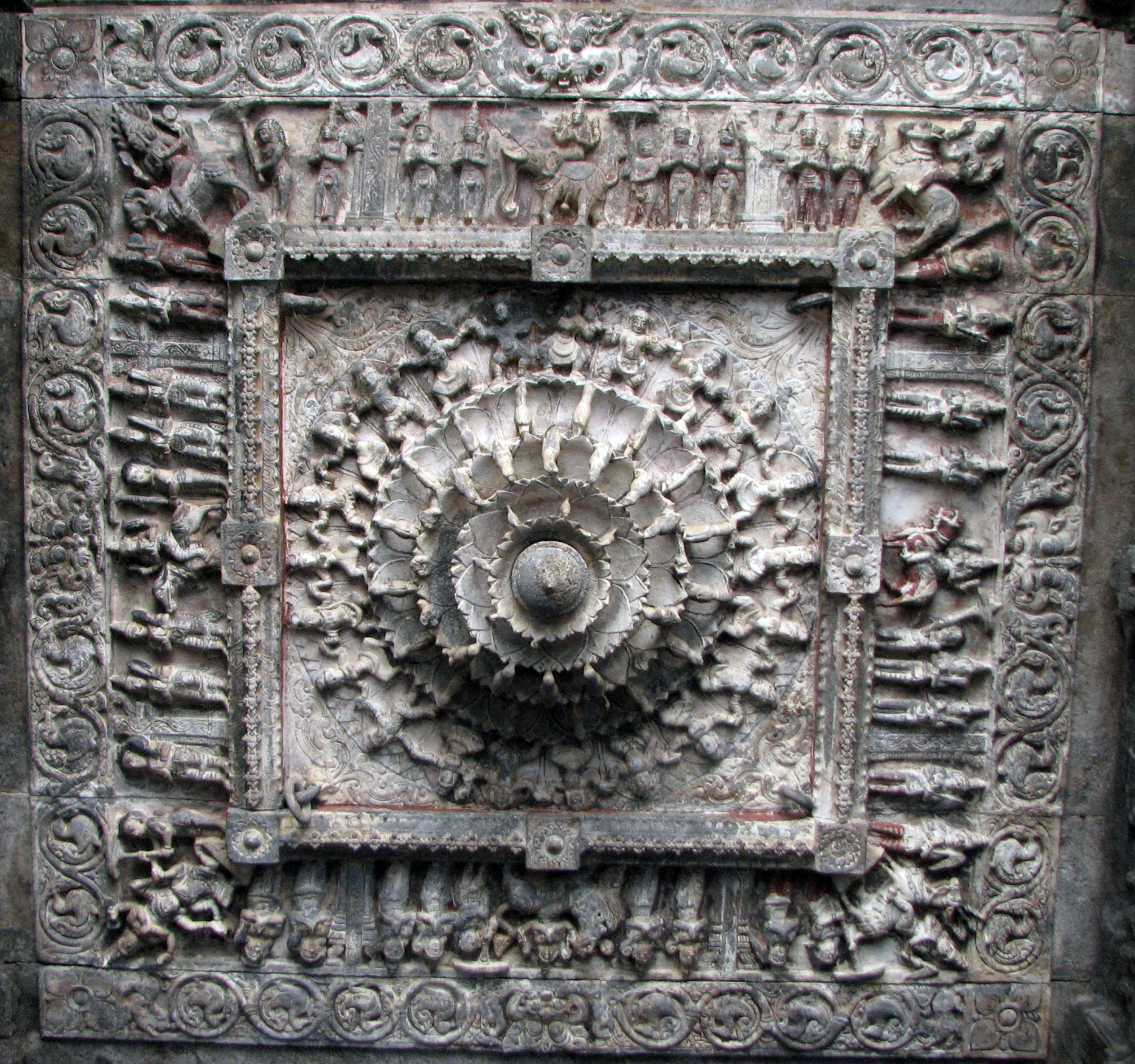 Ceiling Stone carvings at vellore fort temple.